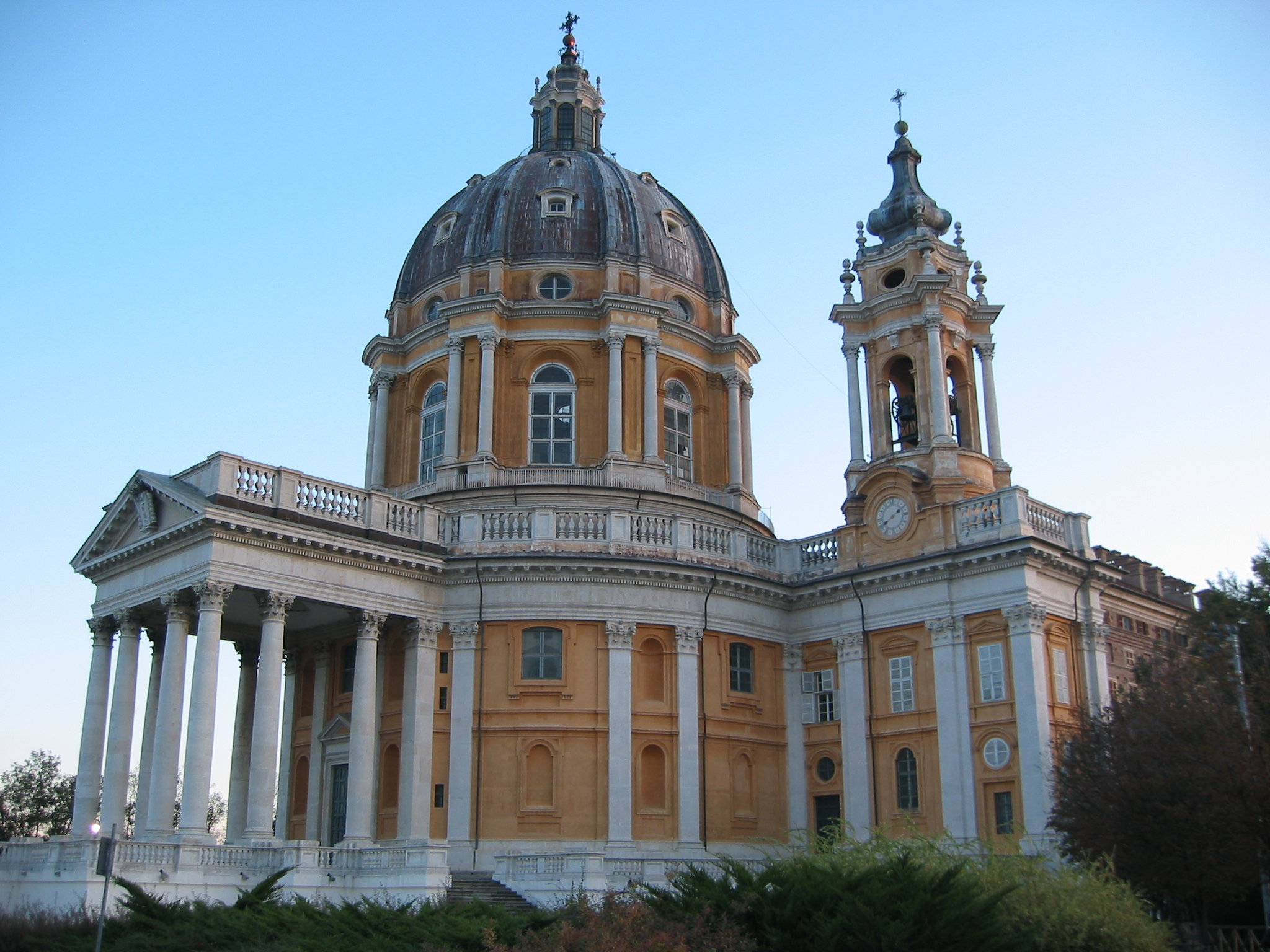 Basilica of Superga, external view